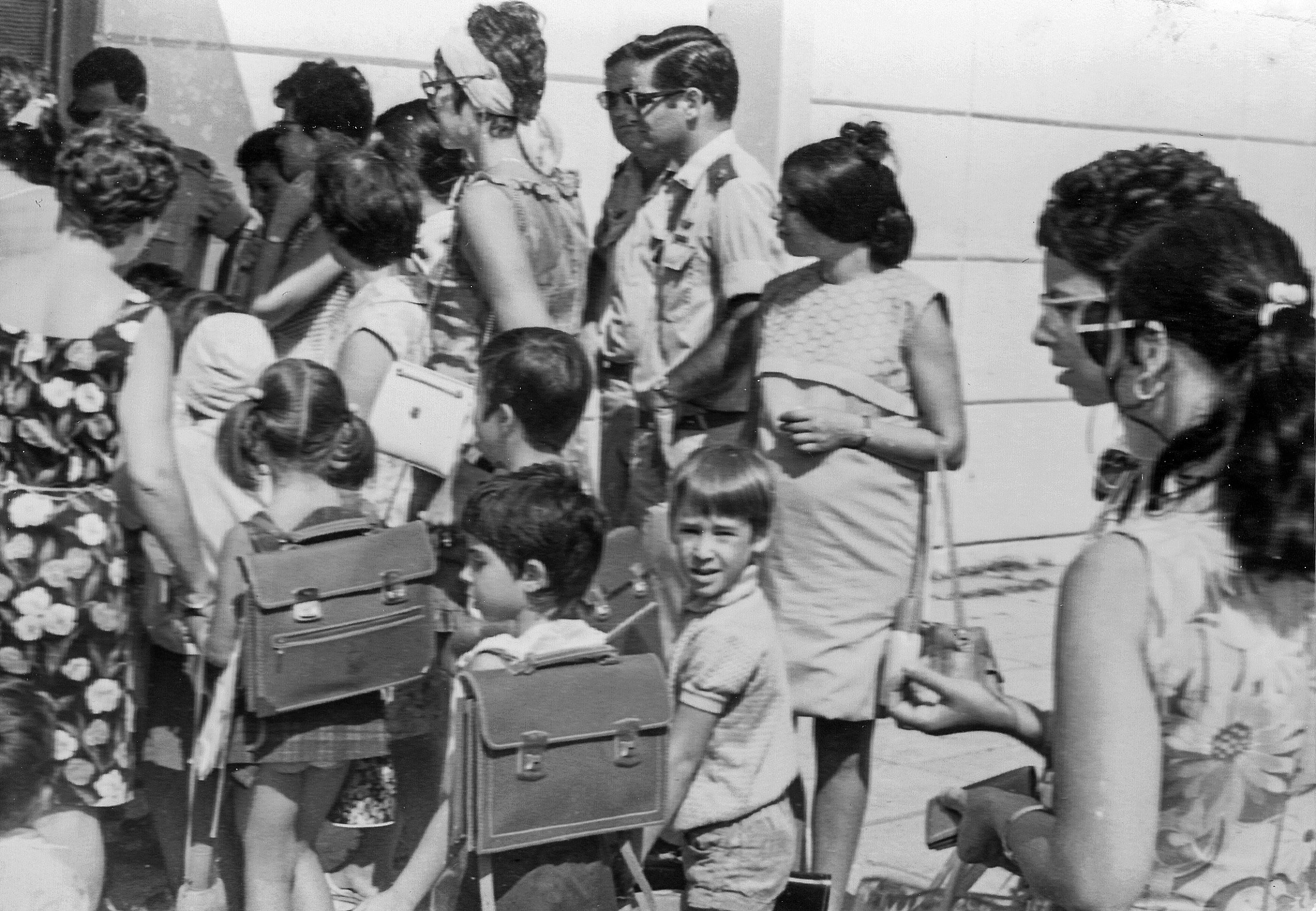 First day of school, Education in Israel